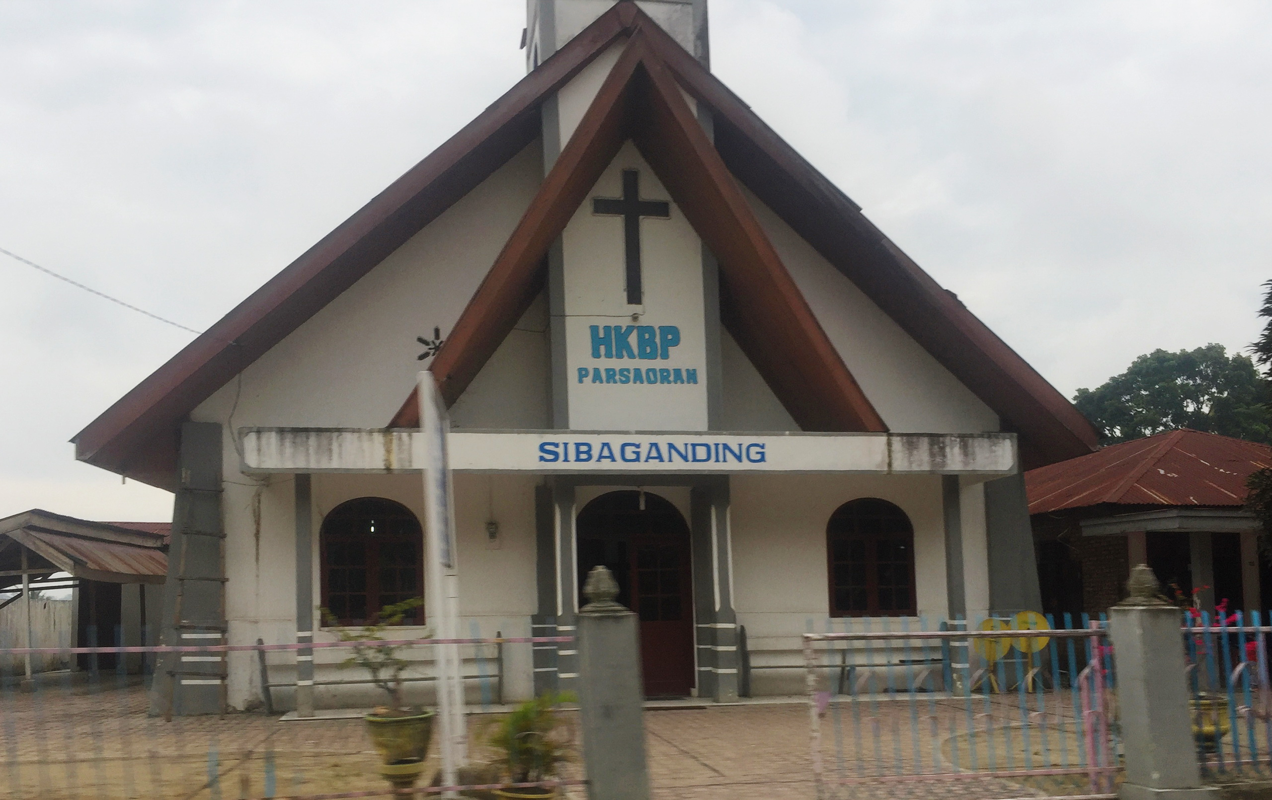 HKBP Parsaoran Sibaganding, Church in Janggir Leto, Panei, Simalungun